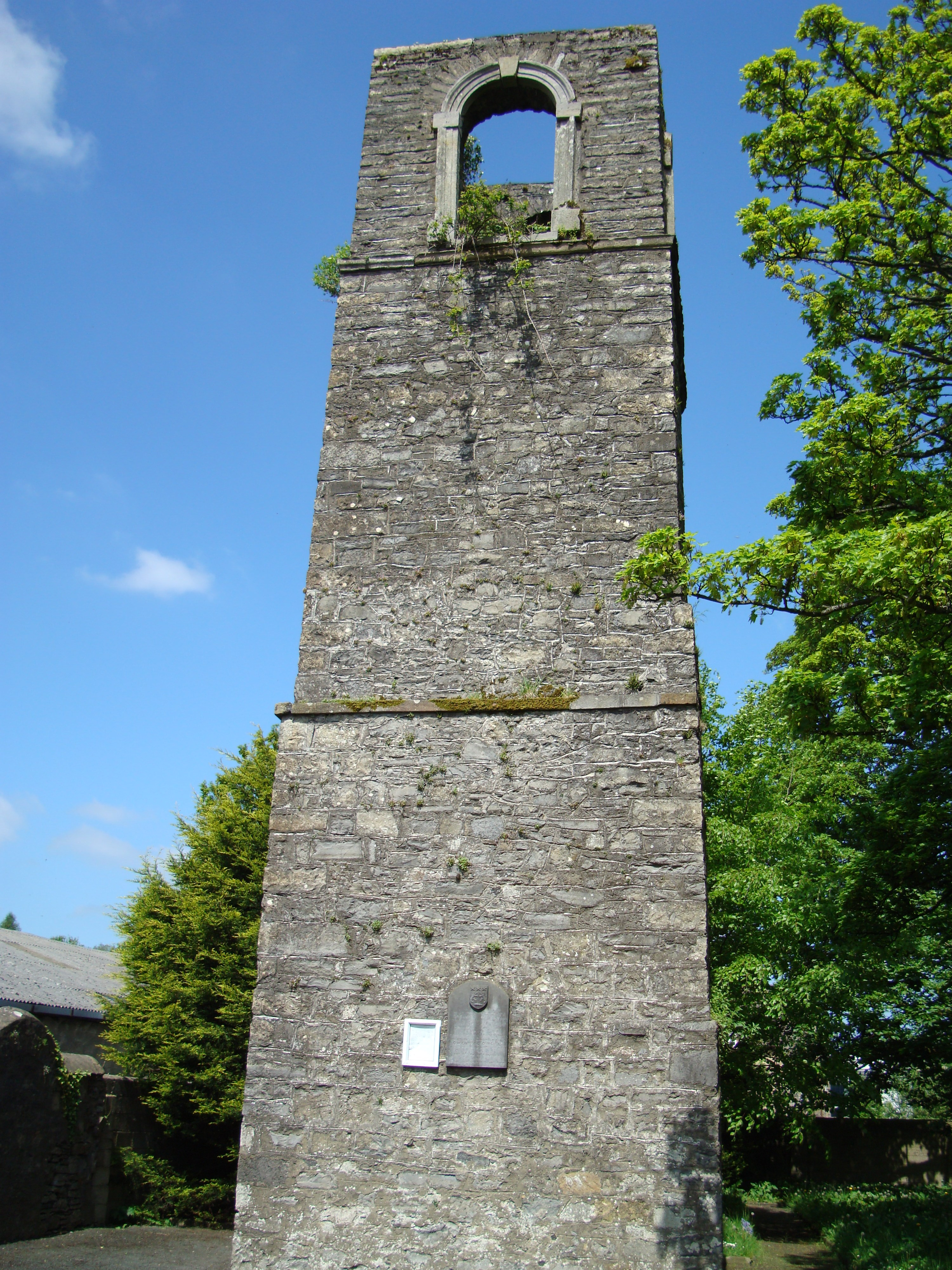 Photograph of the tower of Cavan Friary, Co. Cavan, Republic of Ireland